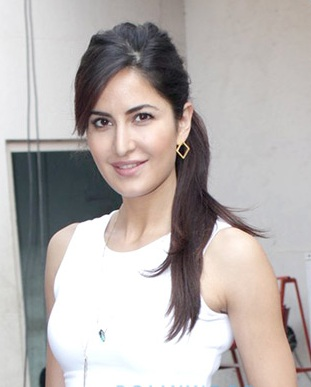 Katrina Kaif snapped on (21 Janaury 2016) during the promotions of her film ‘Fitoor’ in Mumbai.